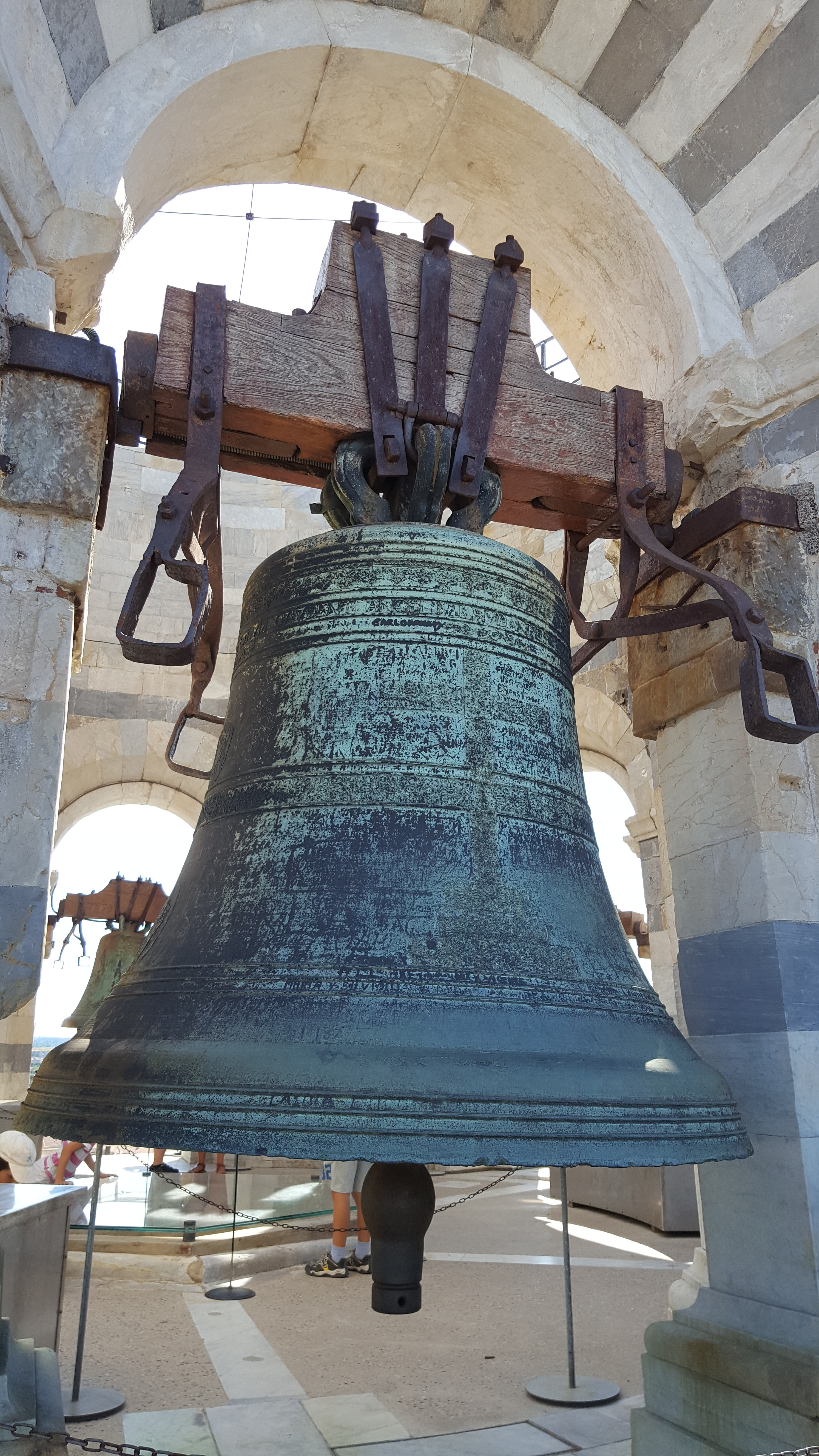 Assunta, bell of the Leaning Tower (Pisa)